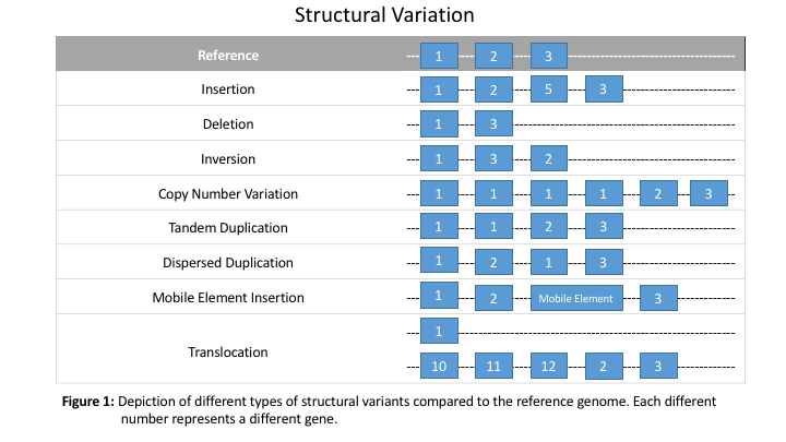 Depiction of different types of structural variation compared to the reference genome